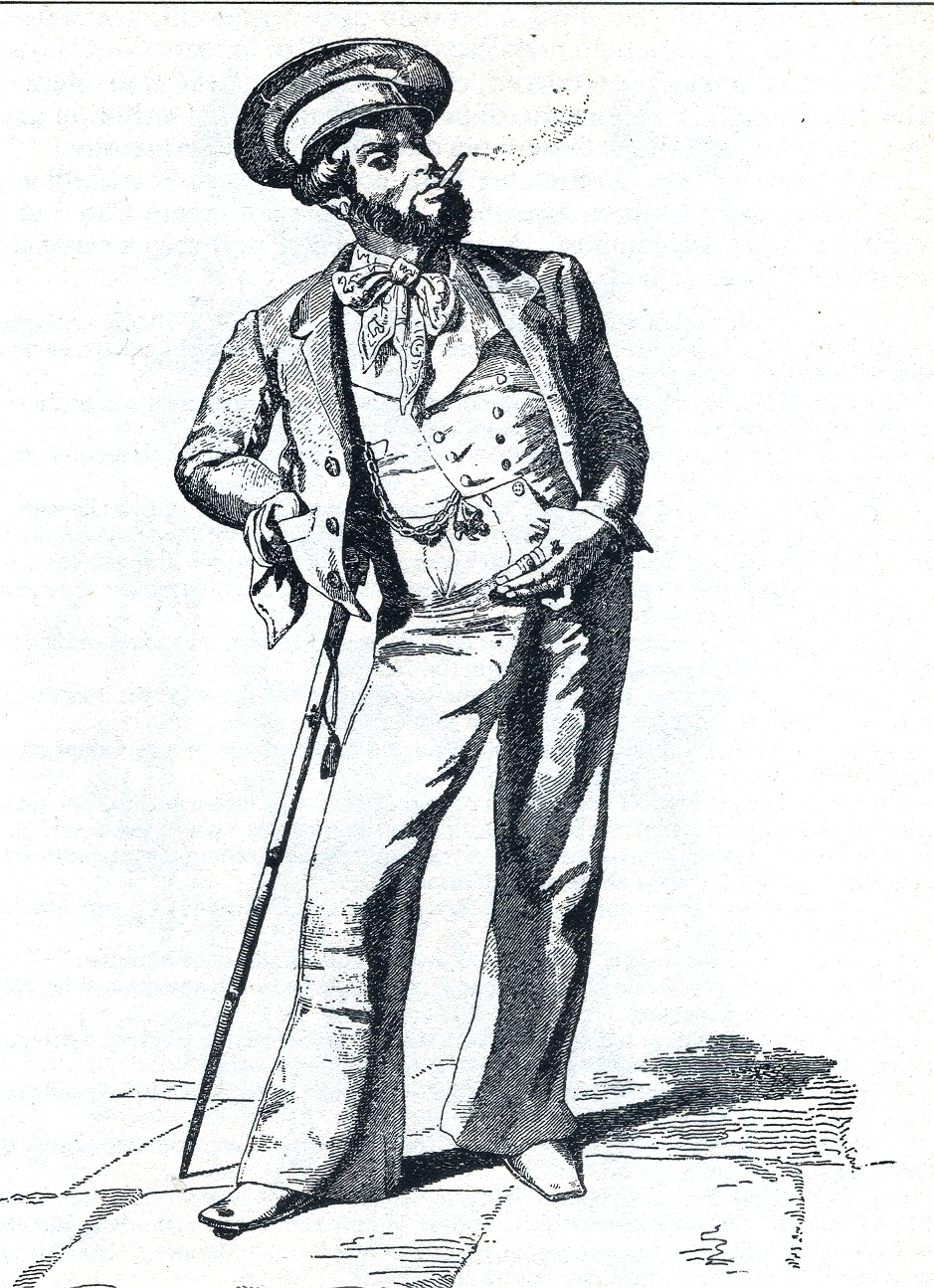 Guappo camorrista in Napoli, Italy. Drawing of Giuseppe Palizzi, 1866.